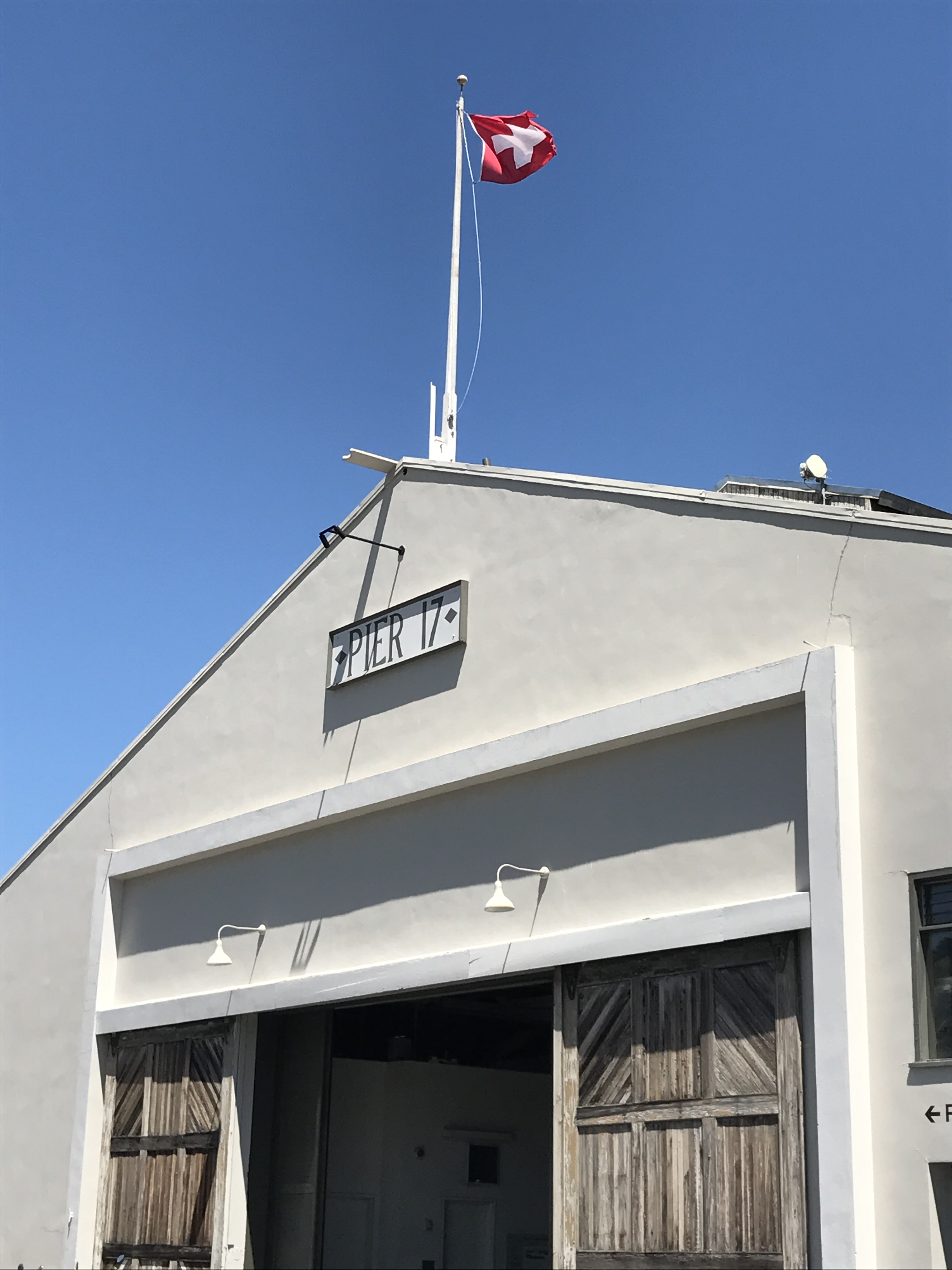 Photo of the outside of Pier 17 hosting the consulate-general of Switzerland in San Francisco, California